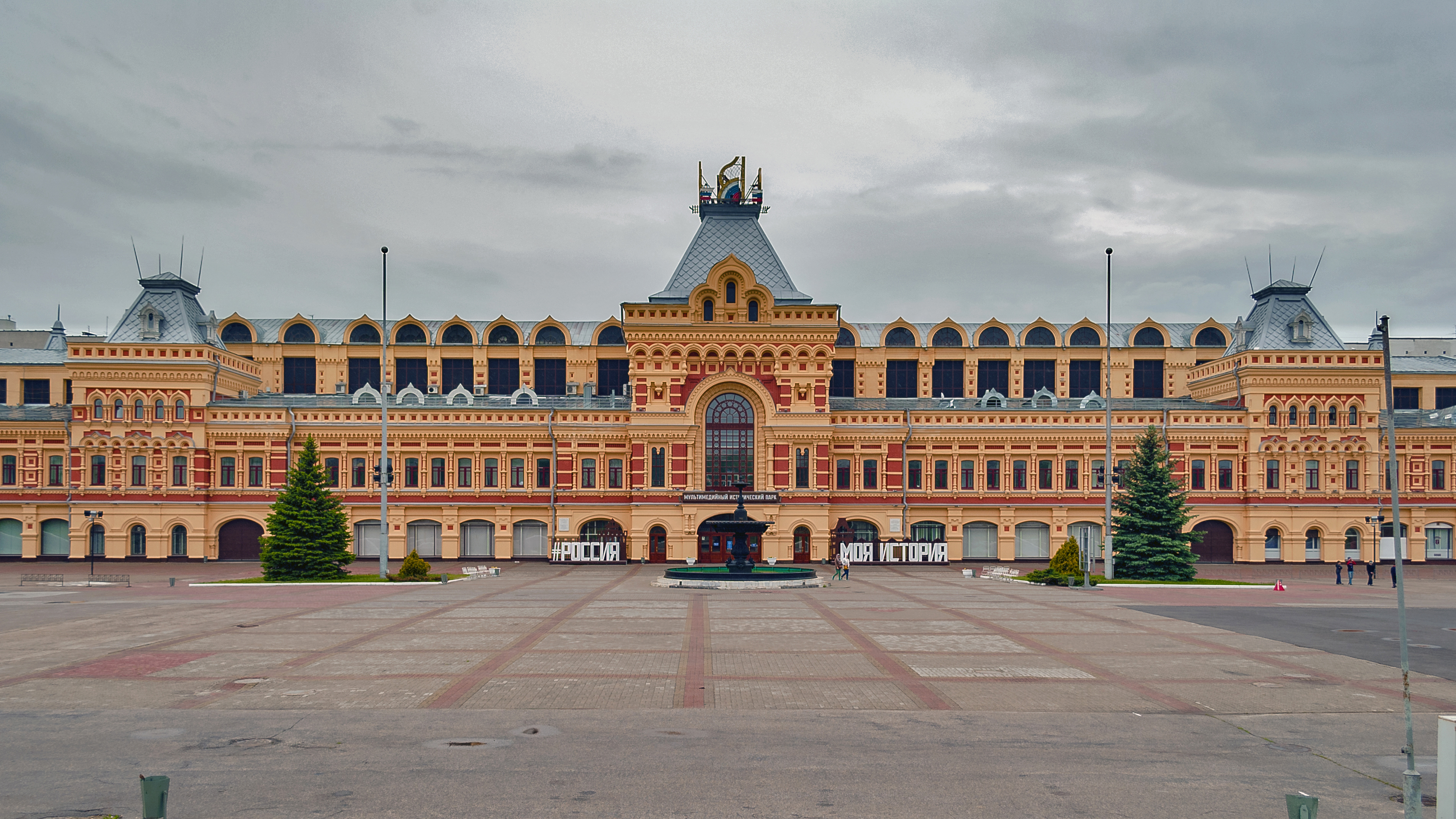 Main building of the Trade Fair in Nizhny Novgorod, Russia